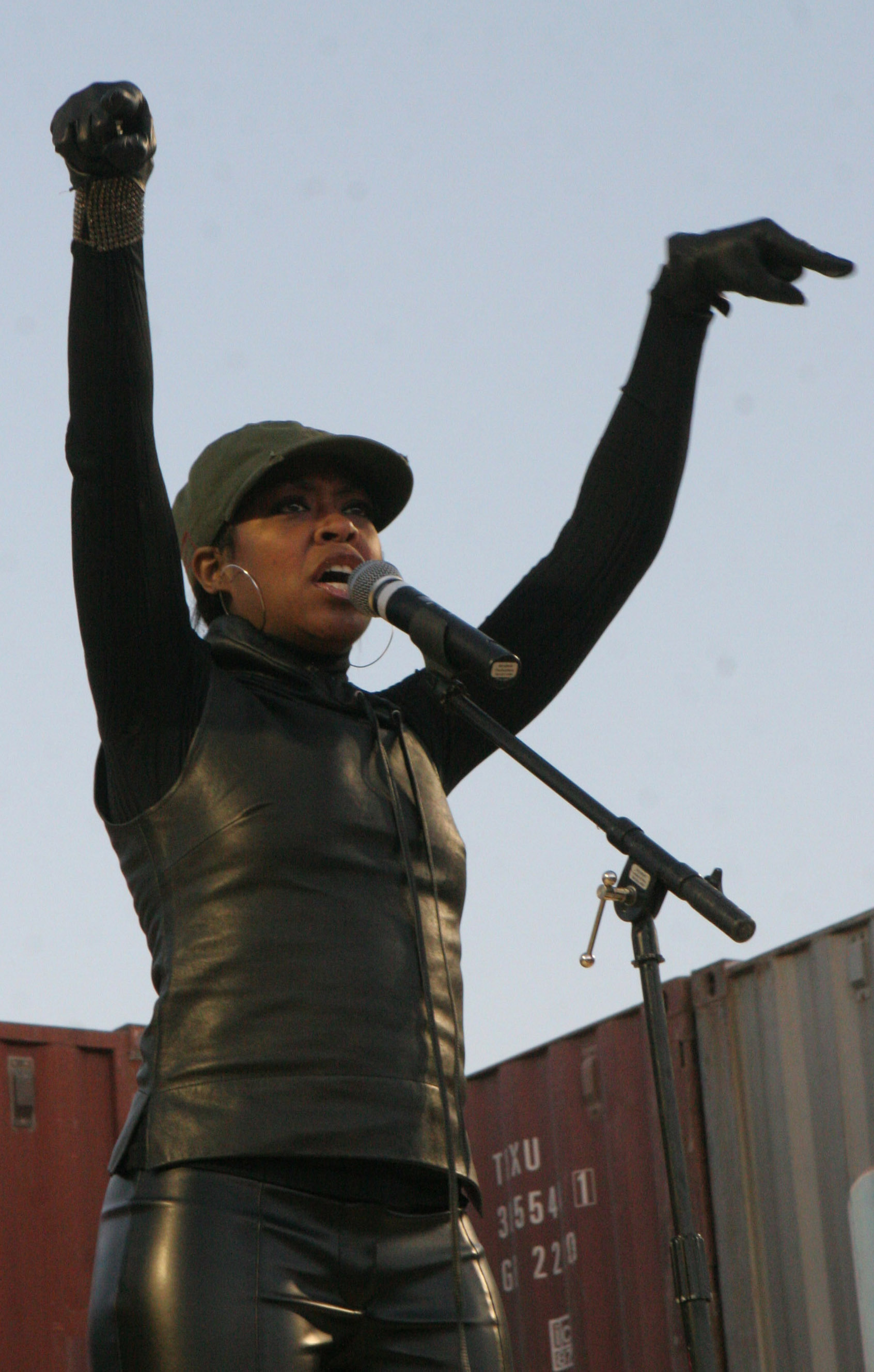 Actress Tichina Arnold performs for service members during the United Service Organization's Holiday Tour here Dec. 19. The award-winning actress was joined with musicians Kid Rock, Zac Brown and Kellie Pickler, and comedians John Bowman, Kathleen Madigan and Lewis Black. The group's touring five military bases throughout the Middle East boosting troops' morale. The performers entertained the crowd all afternoon and into the night.